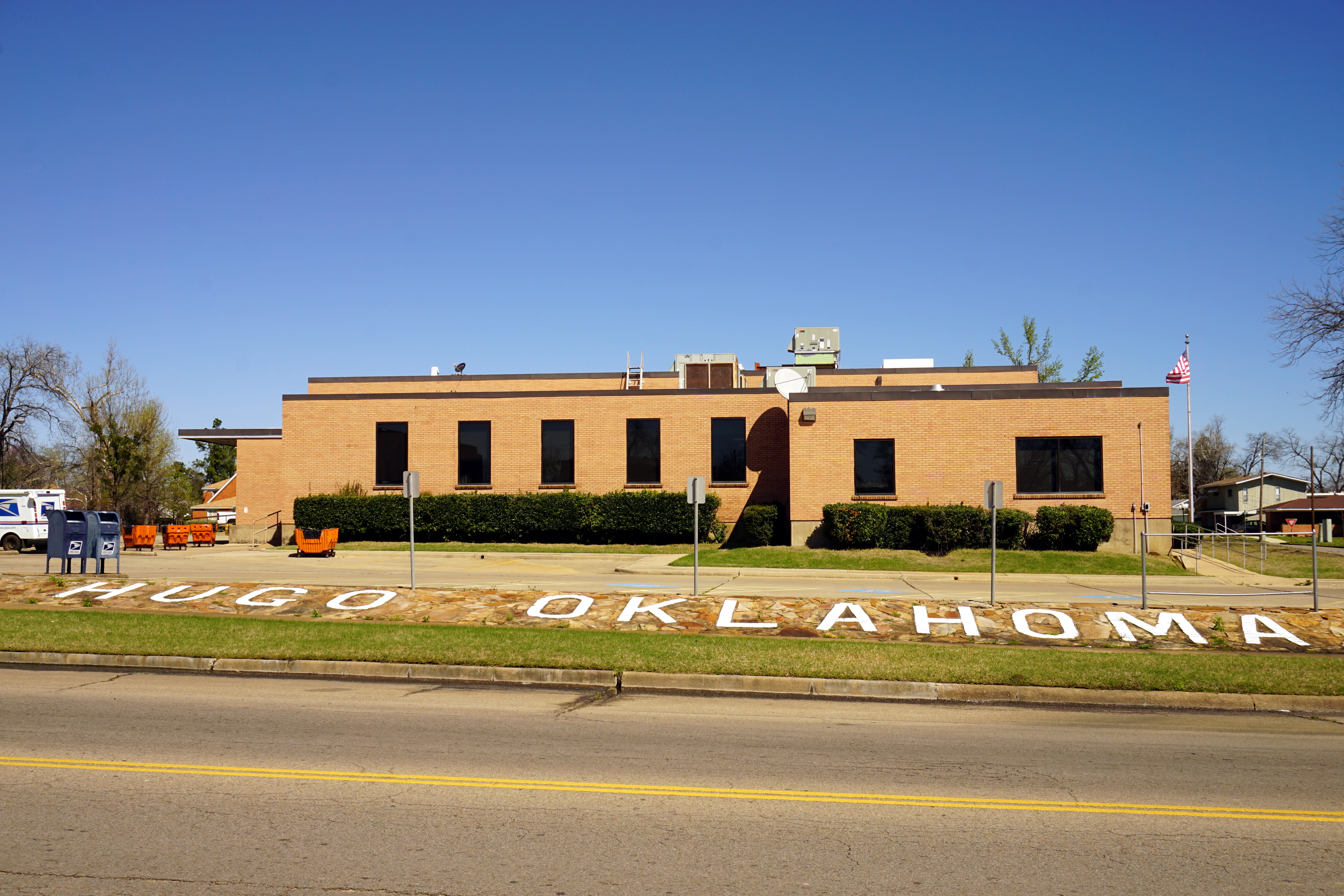 The Little Dixie Community Action Agency and United States Post Office in Hugo, Oklahoma (United States).